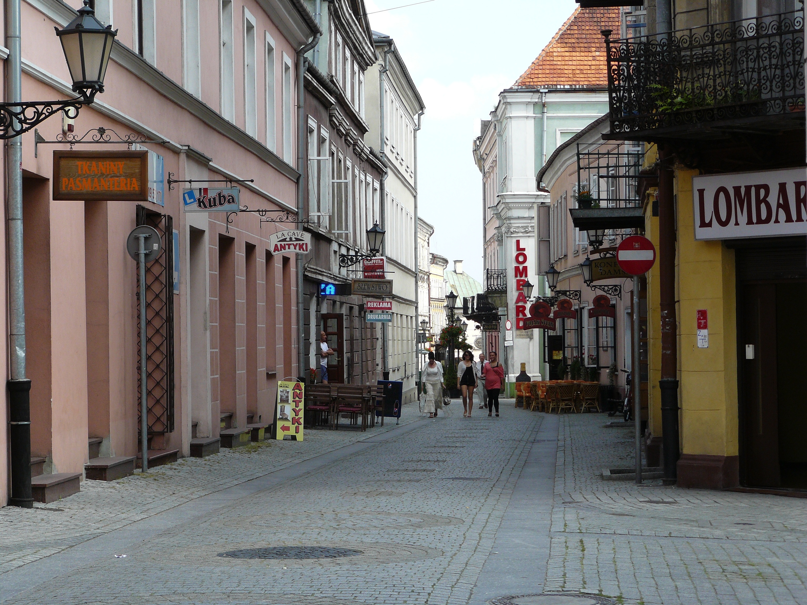 Szewska street in Piotrkow Trybunalski (PL)